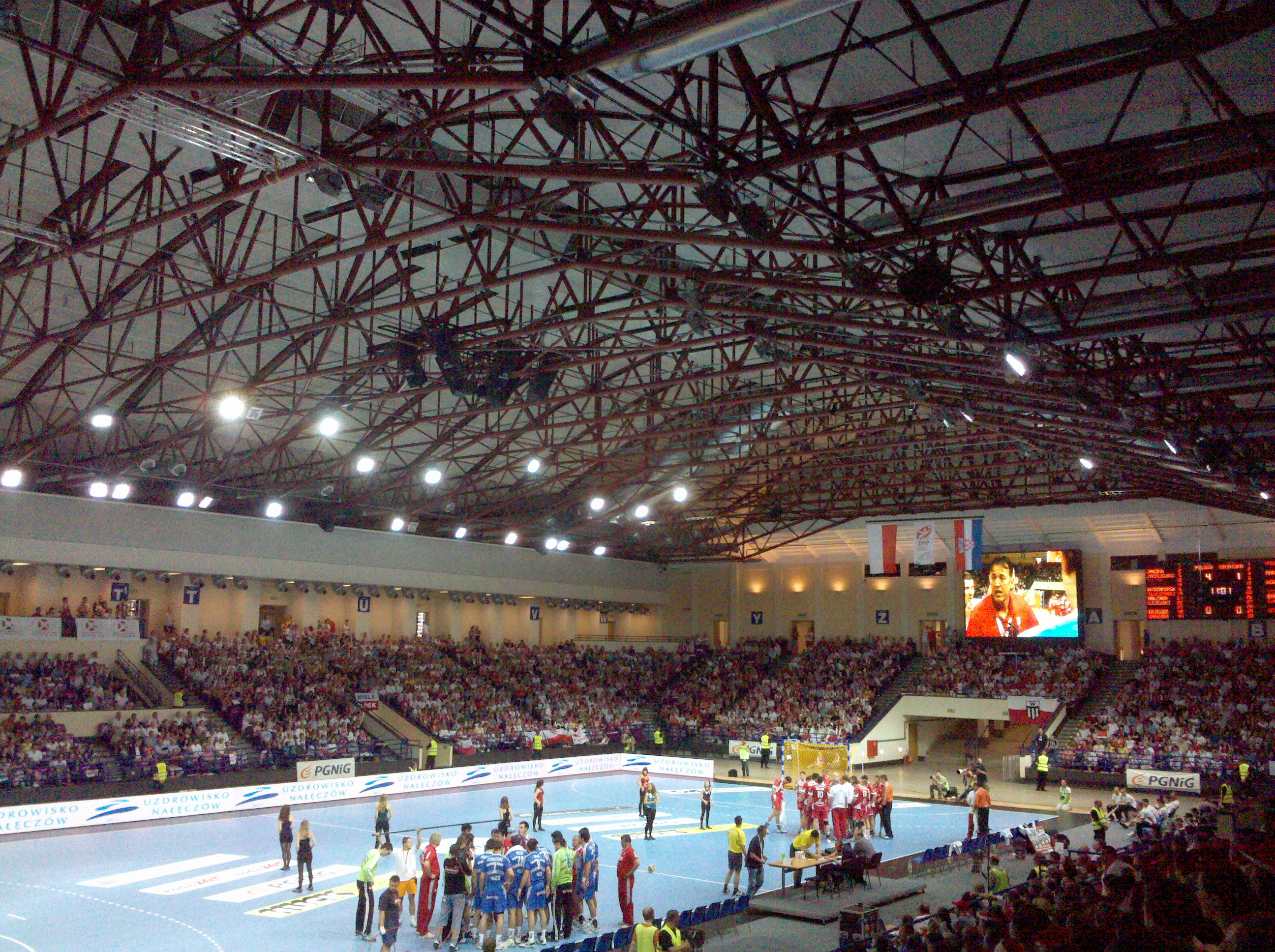 Friendly game between handball national teams of Poland and Croatia